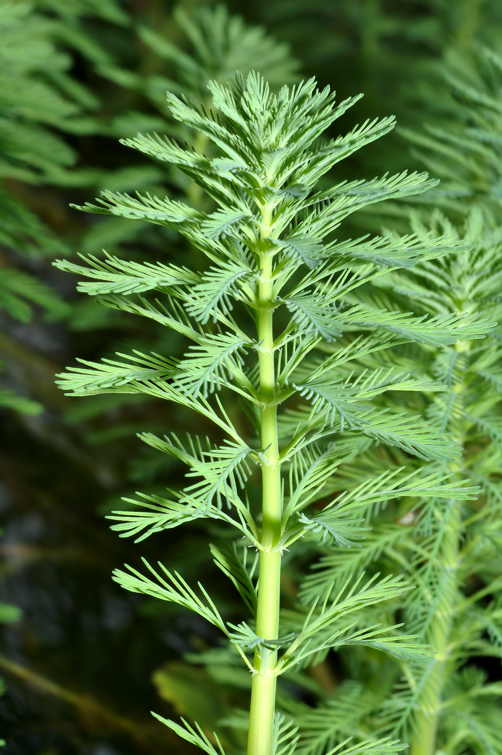 This image shows a Parrotfeather (Myriophyllum aquaticum).